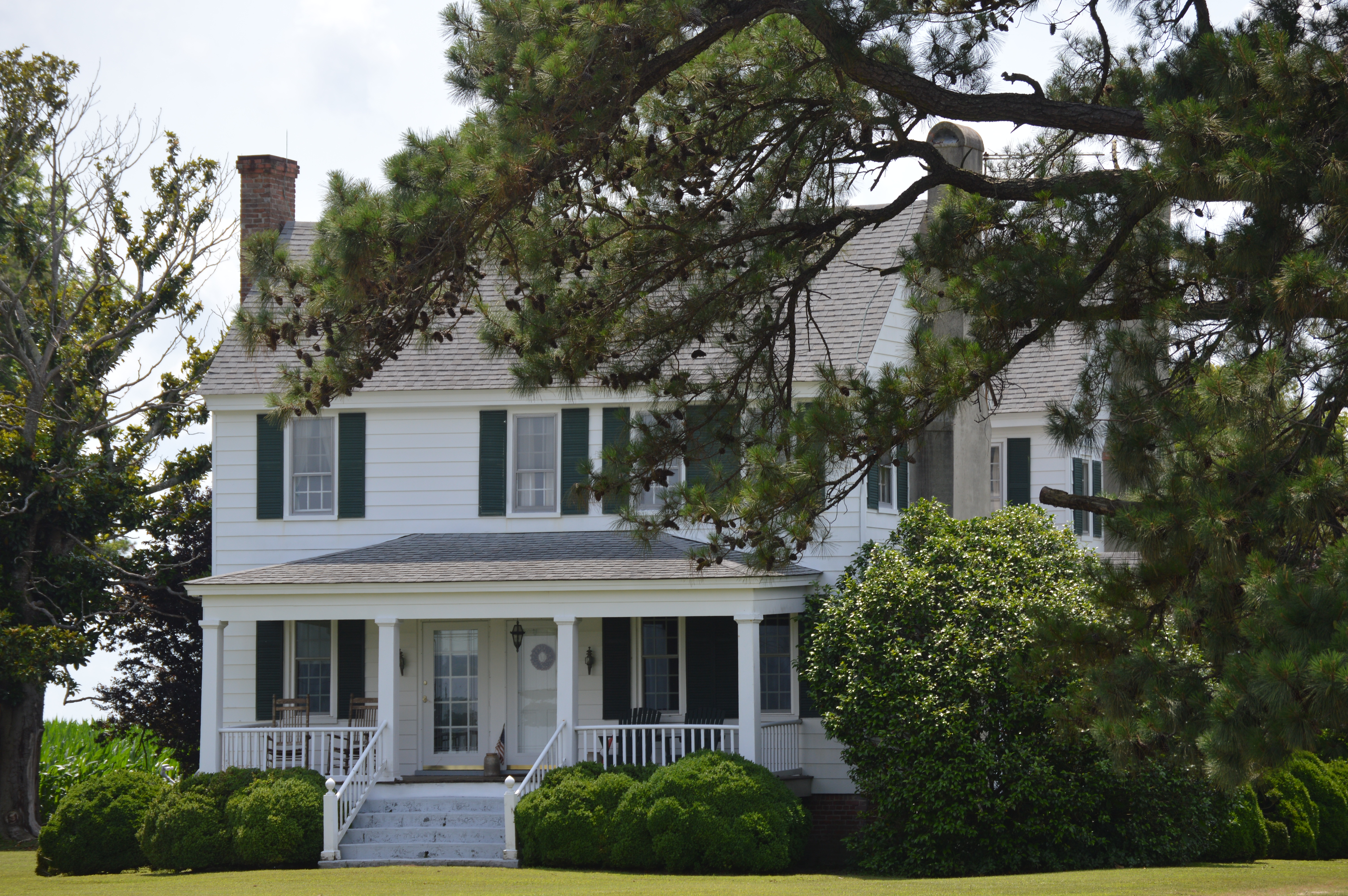 Front and northern side of the Twin Houses, located along North Carolina Highway 34 at Shawboro in Currituck County, North Carolina, United States. Built in 1797, it is listed on the National Register of Historic Places.